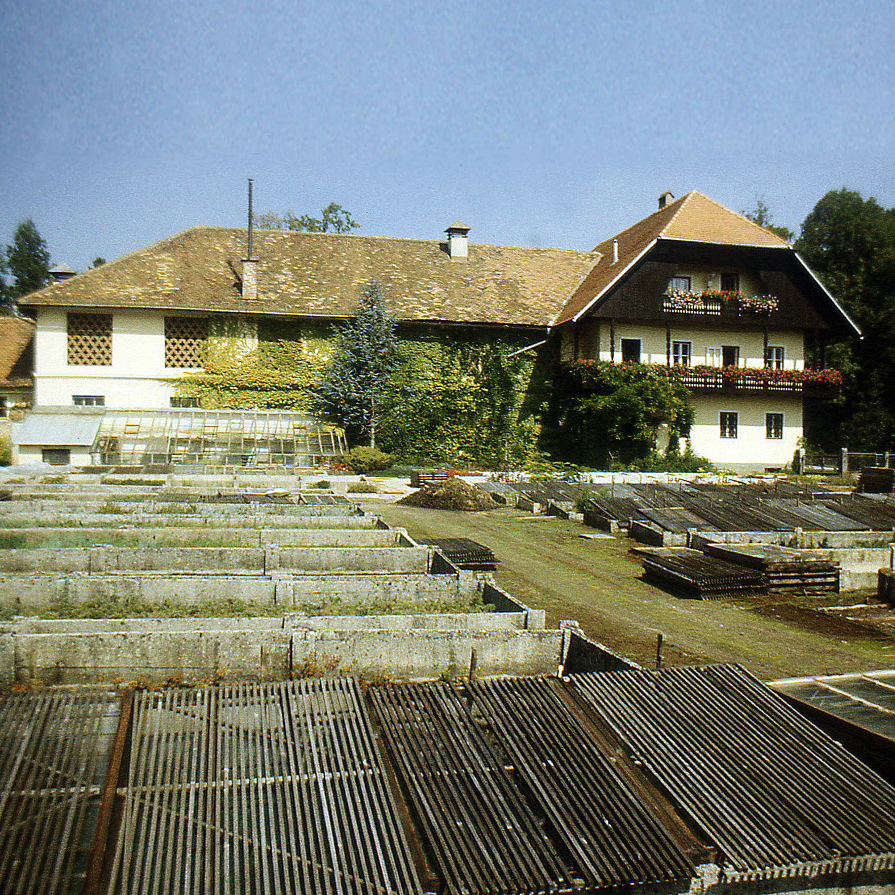 Volčji potok, arboretum, 1986